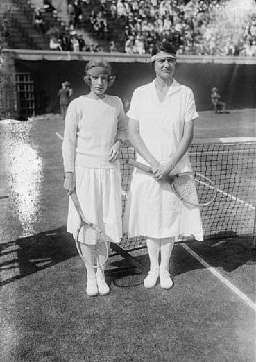 Martha Bayard and Eleanor Goss, tennis players